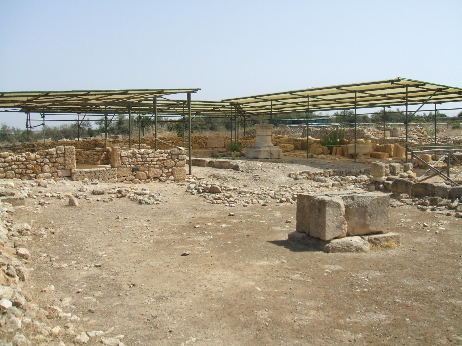 Camarina archaeological site : House of the Altar quarter